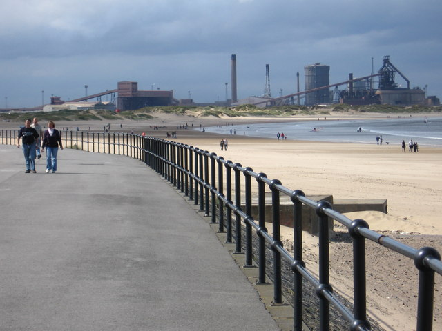 Redcar - Coatham Sands Redcar steelworks can be seen beyond the beach.